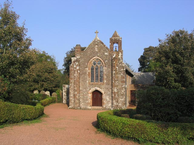 Middlebie Church There are some interesting old gravestones to the sides and rear of the church.